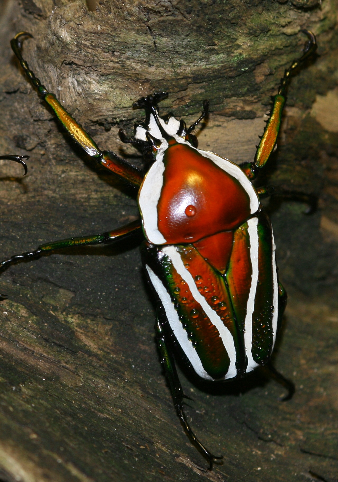 Dicronorrhina derbyana layardi - male from my own breed